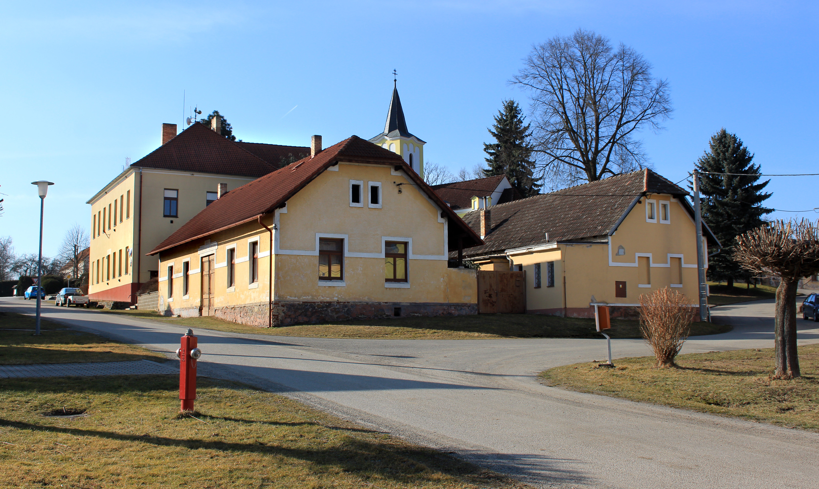 East view of Řípec village, Czech Republic.